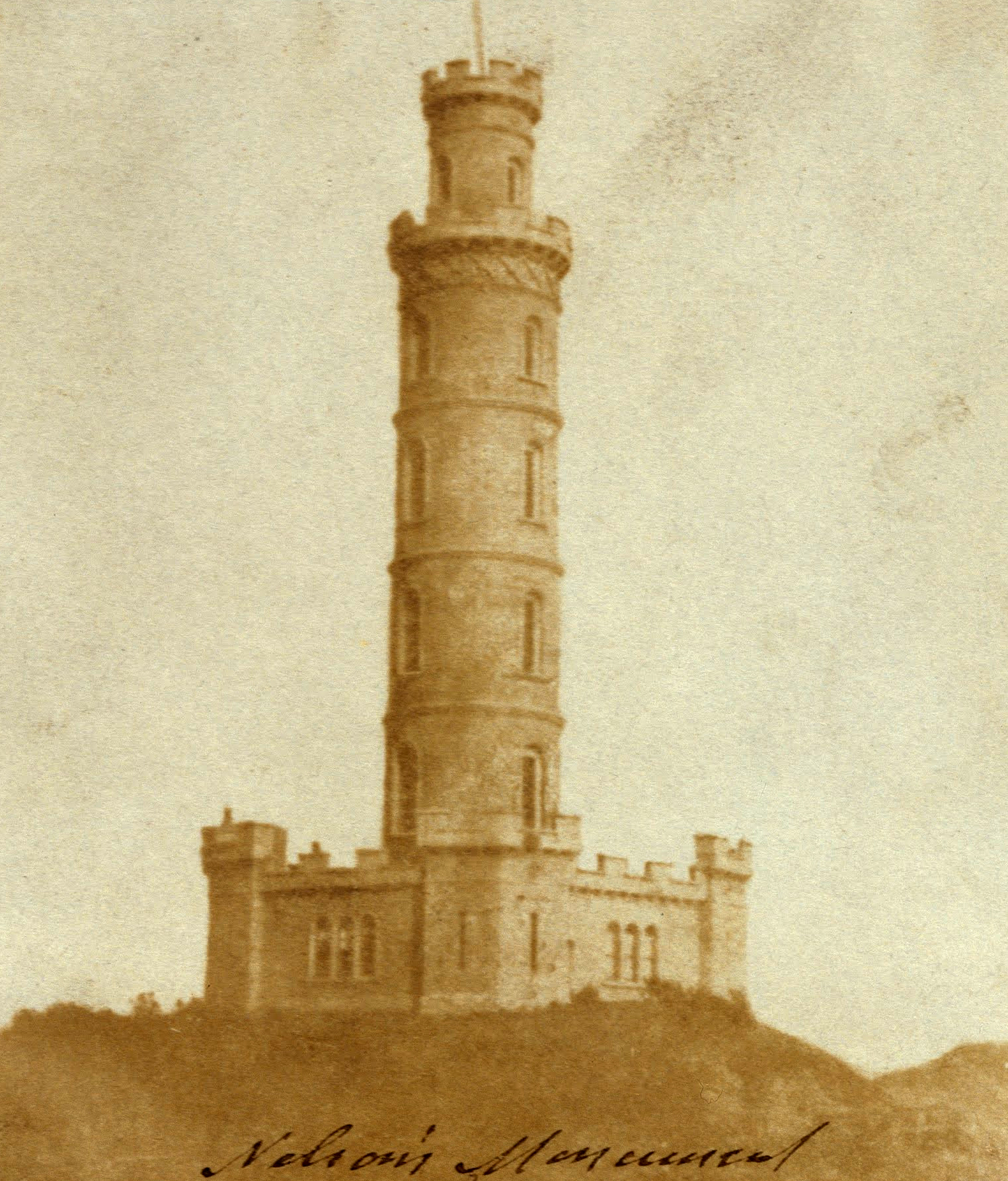 Nelson Monument, Calton Hill, Edinburgh. From J. Paul Getty Museum.